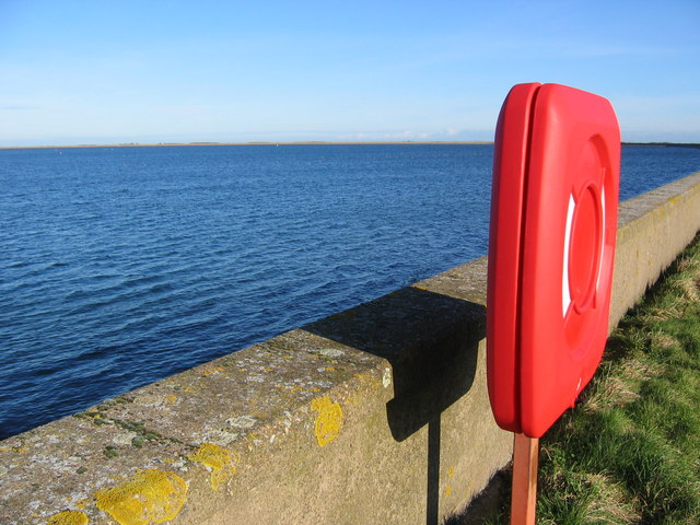 Covenham Reservoir View NE from the bottom SW corner of the reservoir